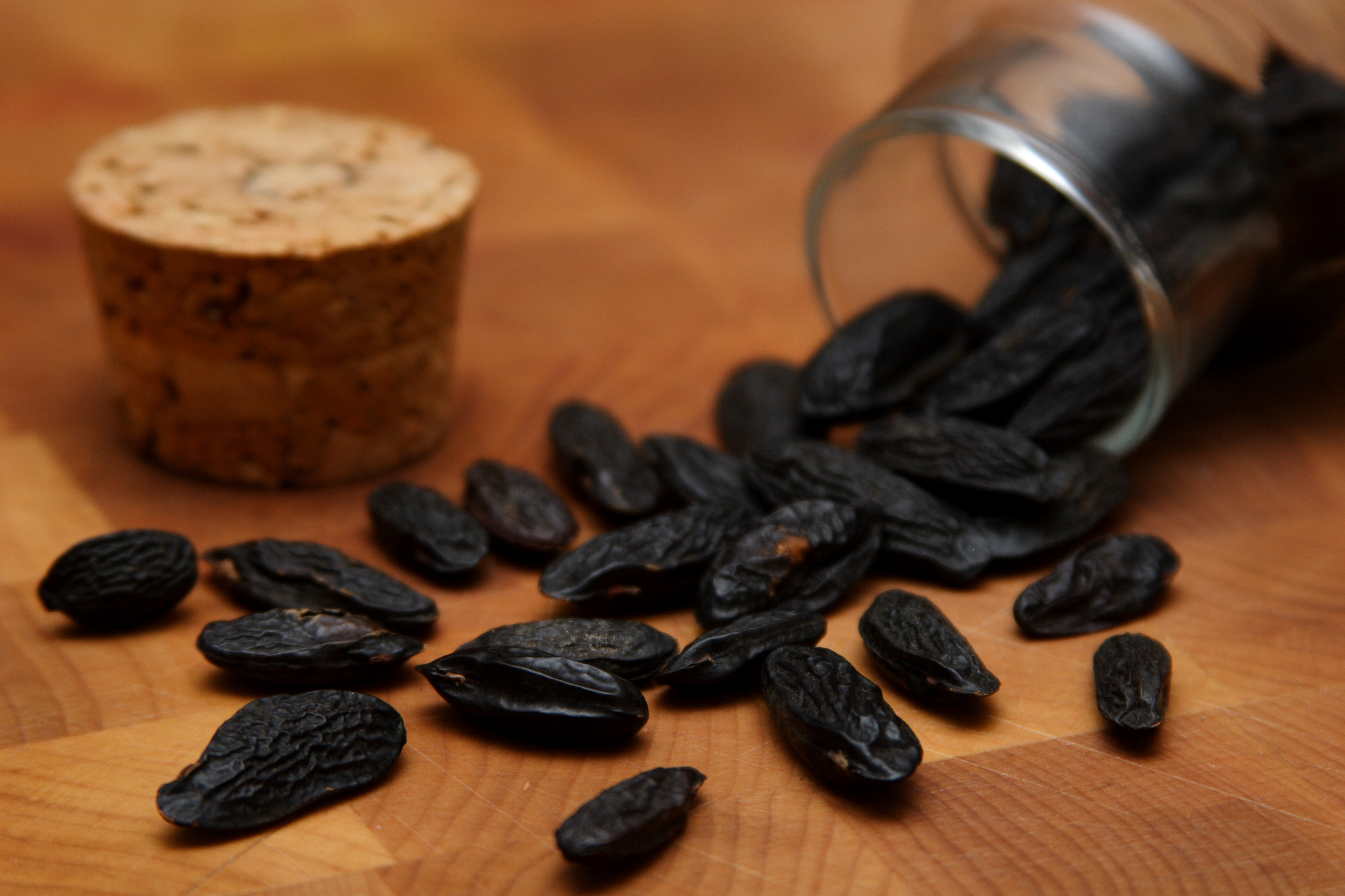 A close up shot of some Tonka Beans